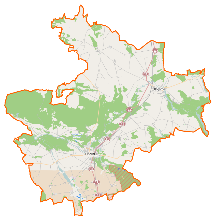 Map of Powiat obornicki, Poland This map of Powiat obornicki was created from OpenStreetMap project data, collected by the community. This map may be incomplete, and may contain errors. Don't rely solely on it for navigation. Border coordinates52.896916.5639←↕→17.145552.5363